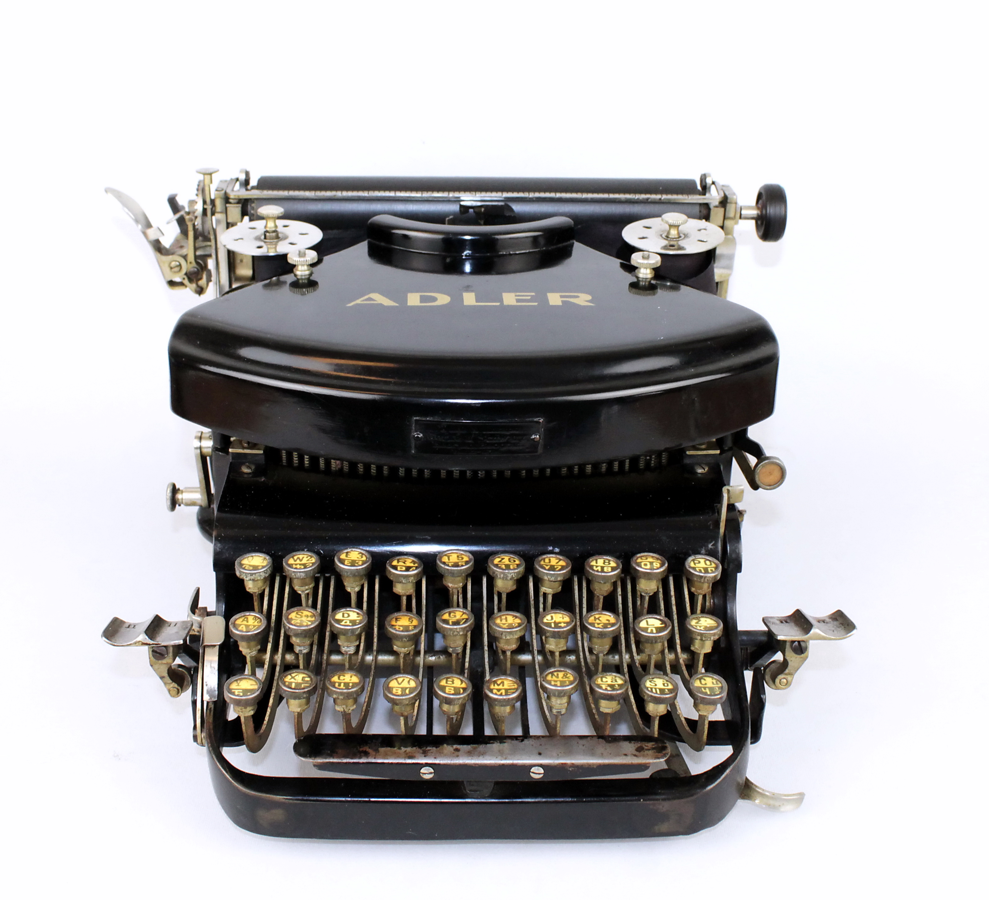 Adler typewriter with Cyrillic letters. This model can be found in the Museum of Science and Technology Belgrade.